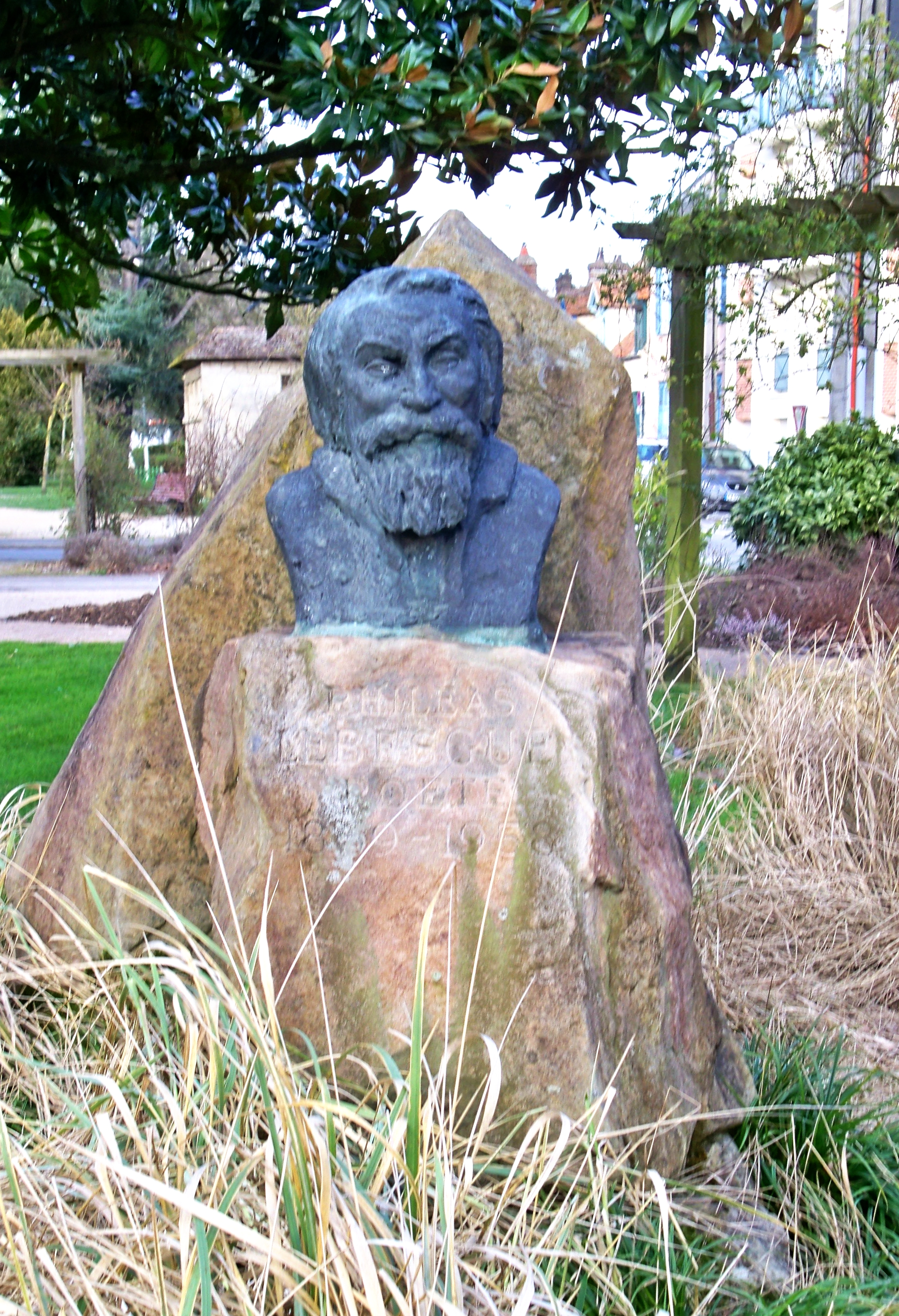 Boulevard General de Gaulle in Beauvais. Bust of Phileas Lebesgue.